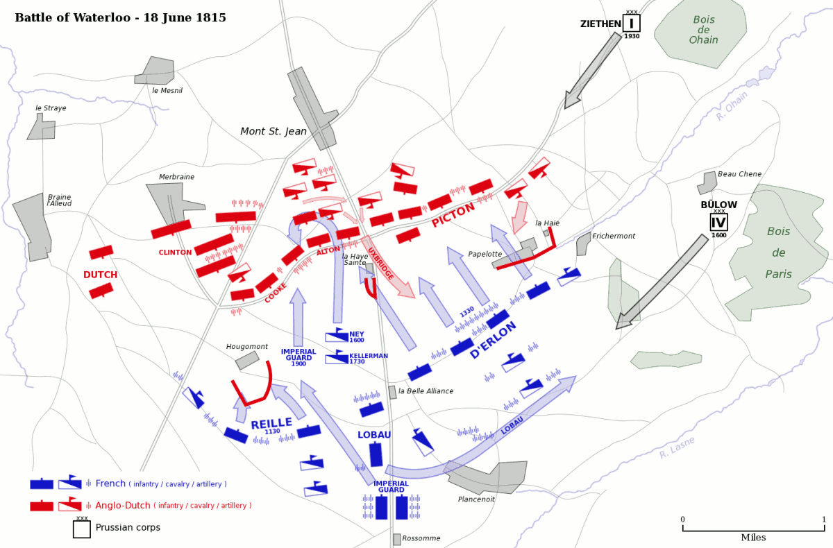 Map of the Battle of Waterloo, 18 June 1815, showing major movements and attacks. Based on a map in A Guide to the Battlefields of Europe, ed. David Chandler, 1965.